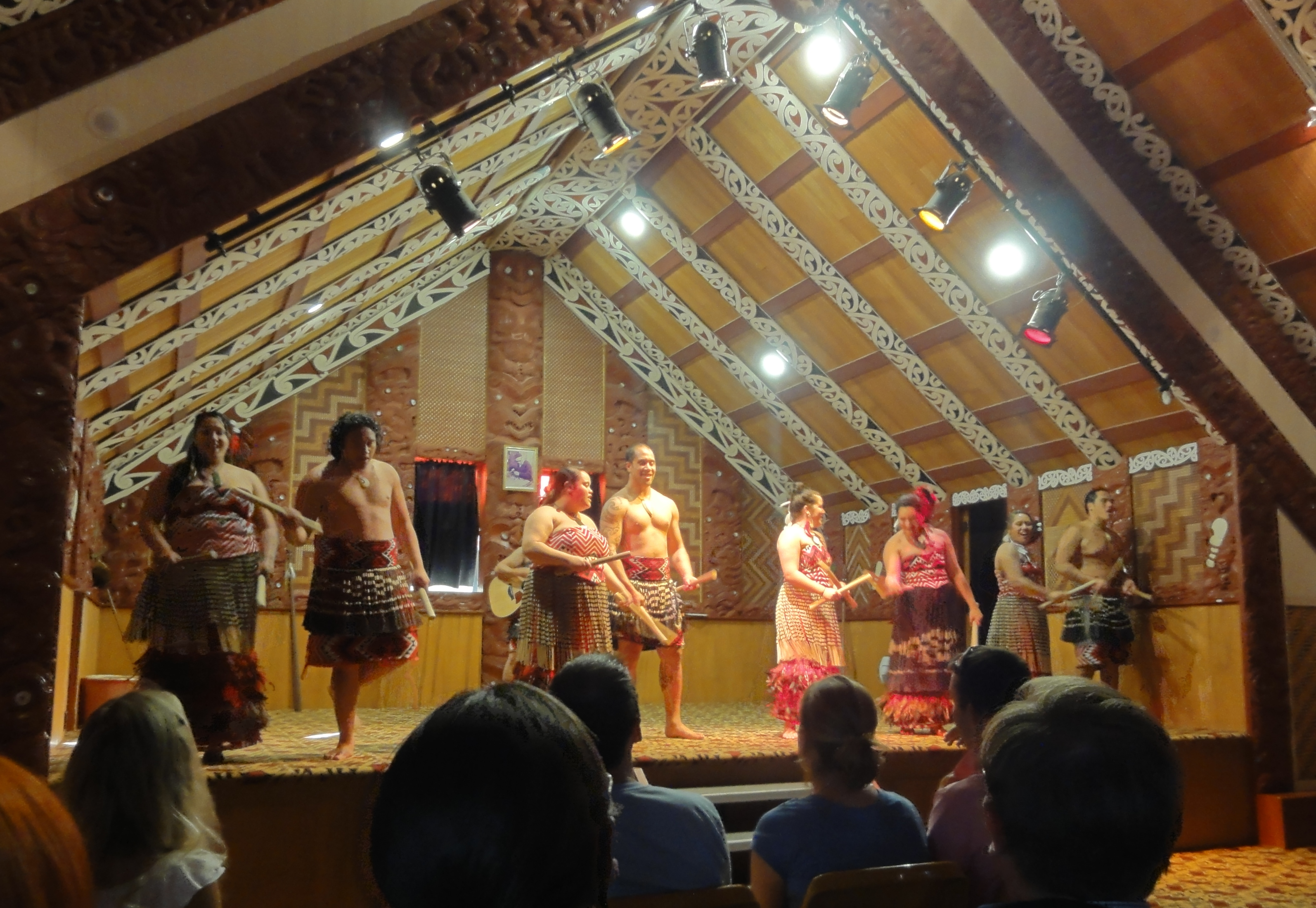 Maori dance performance, Whakarewarewa, Rotorua, New Zealand